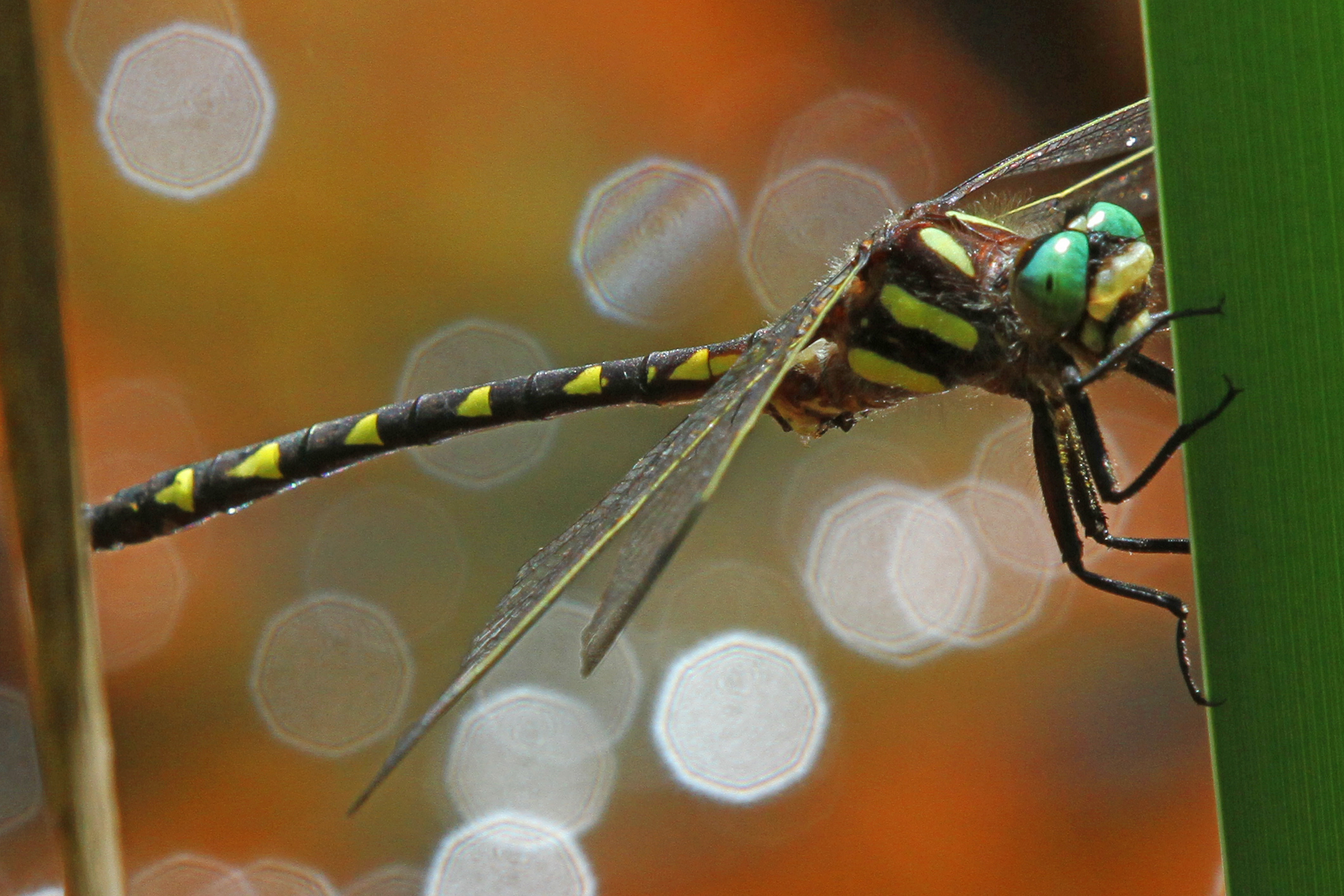 Delta-spotted Spiketail - Cordulegaster diastatops, Lost Land Run, Garrett County, Maryland